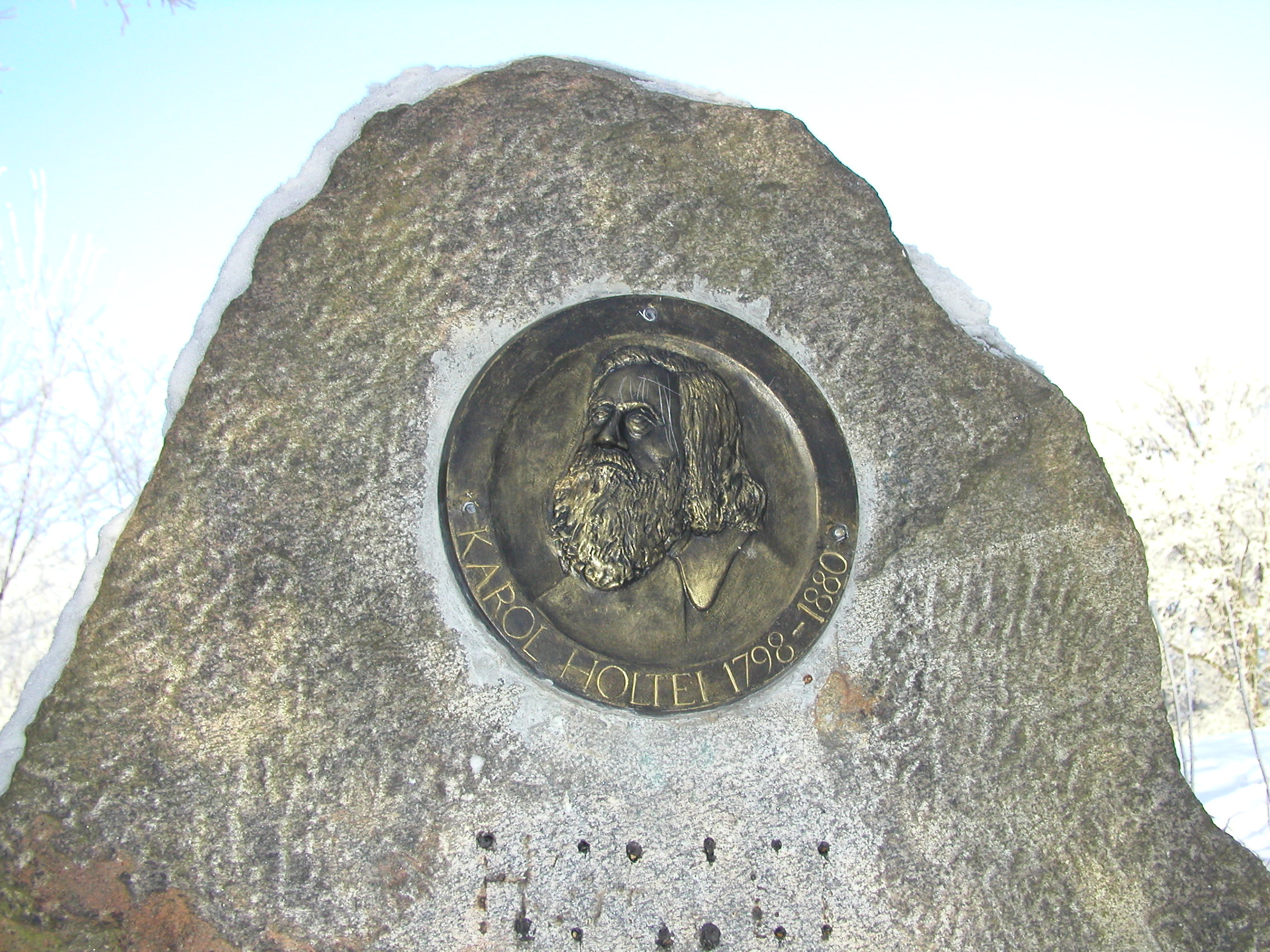 Momument of Karl von Holtei in Oborniki Śląskie (Poland).